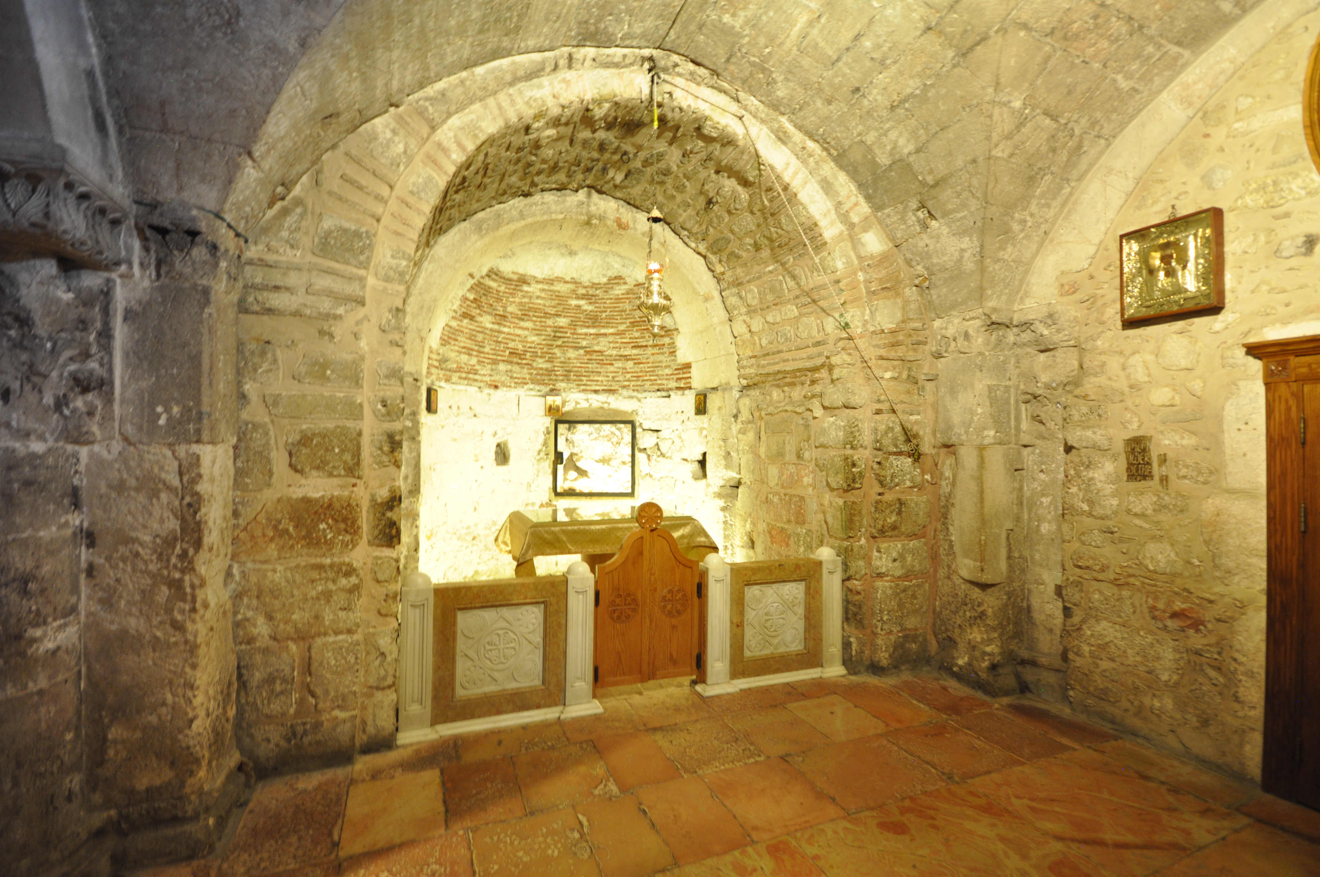 The Church of the Holy Sepulchre, also called the Basilica of the Holy Sepulchre, or the Church of the Resurrection by Eastern Christians, is a church within the Christian Quarter of the walled Old City of Jerusalem. It is a few steps away from the Muristan. The site is venerated as Golgotha (the Hill of Calvary), where Jesus was crucified, and is said also to contain the place where Jesus was buried (the Sepulchre). The church has been a paramount – and for many Christians the most important – pilgrimage destination since at least the 4th century, as the purported site of the resurrection of Jesus. Today it also serves as the headquarters of the Greek Orthodox Patriarch of Jerusalem, while control of the building is shared between several Christian churches and secular entities in complicated arrangements essentially unchanged for centuries. Today, the church is home to branches of Eastern Orthodoxy and Oriental Orthodoxy as well as to Roman Catholicism. Anglican and Protestant Christians have no permanent presence in the Church – and some have regarded the alternative Garden Tomb, elsewhere in Jerusalem, as the true place of Jesus's crucifixion and resurrection